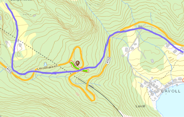 Map Lavoll - Flikkeid vegmiljø